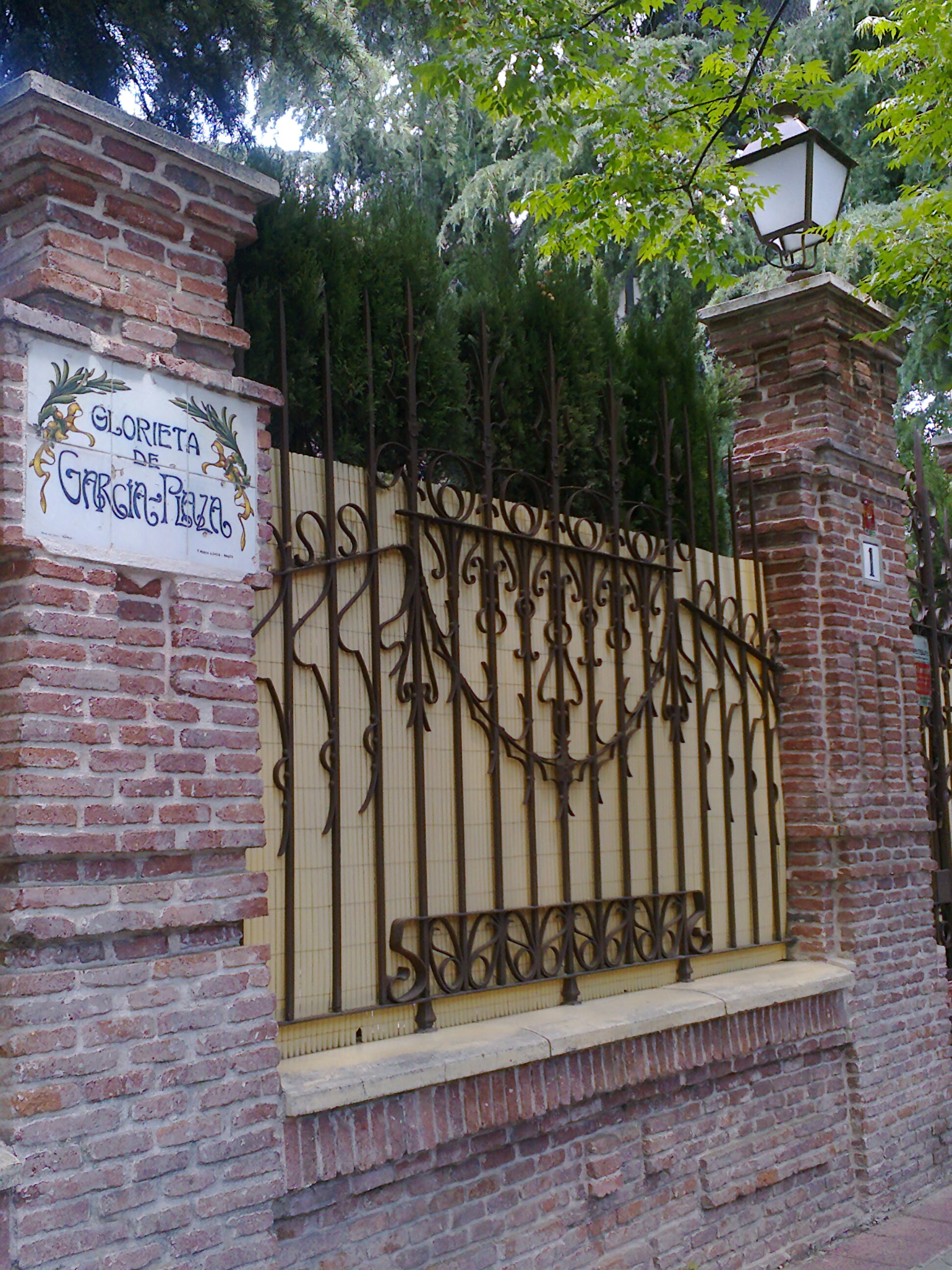 García Plaza Square